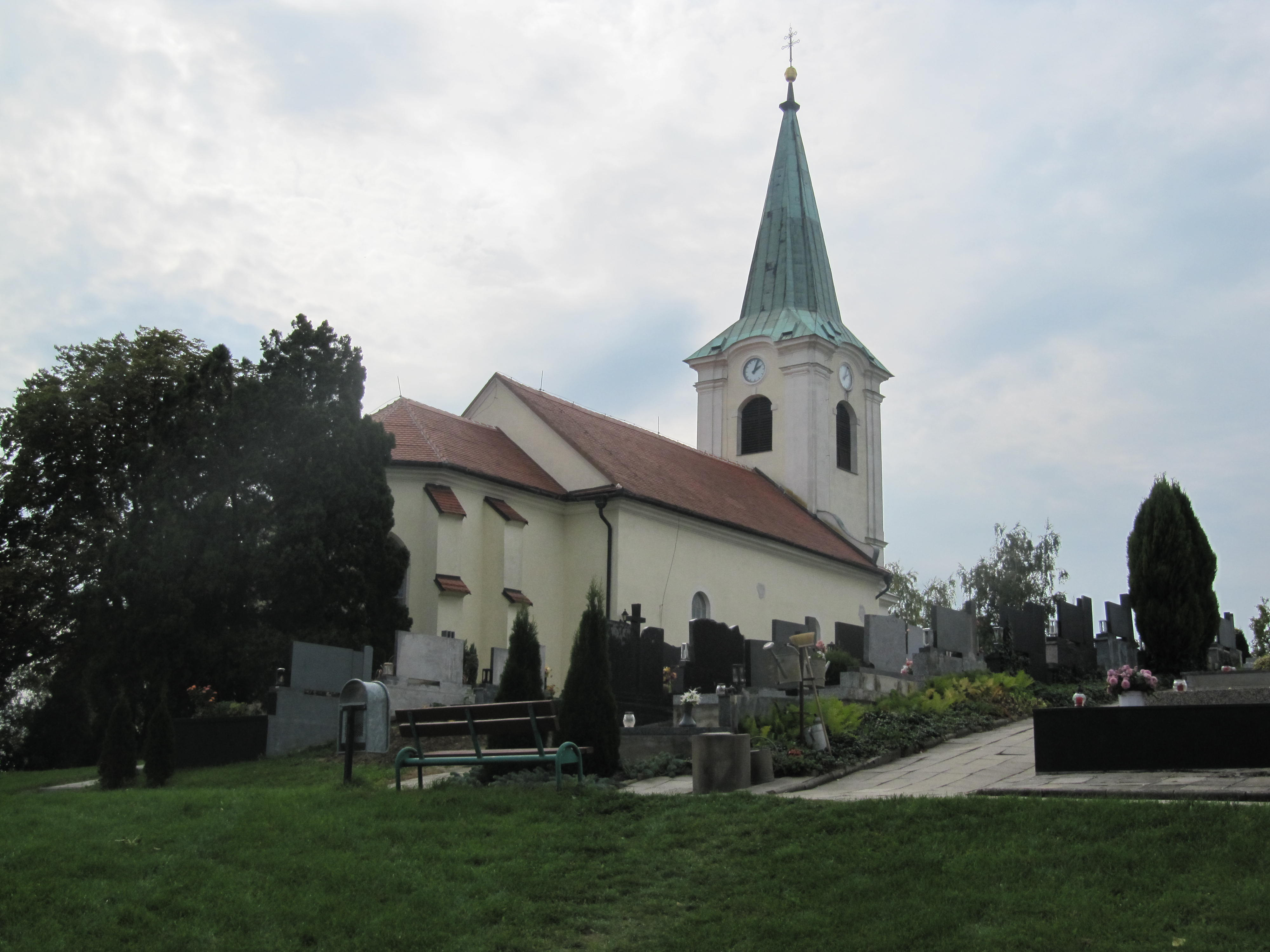 Uherské Hradiště, part Sady, Czech Republic.Church.